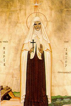 Blessed Mariam of Jesus Crucified (Mariam Bawardy, Mariam of Abellin, Mariam of Bethlehem)